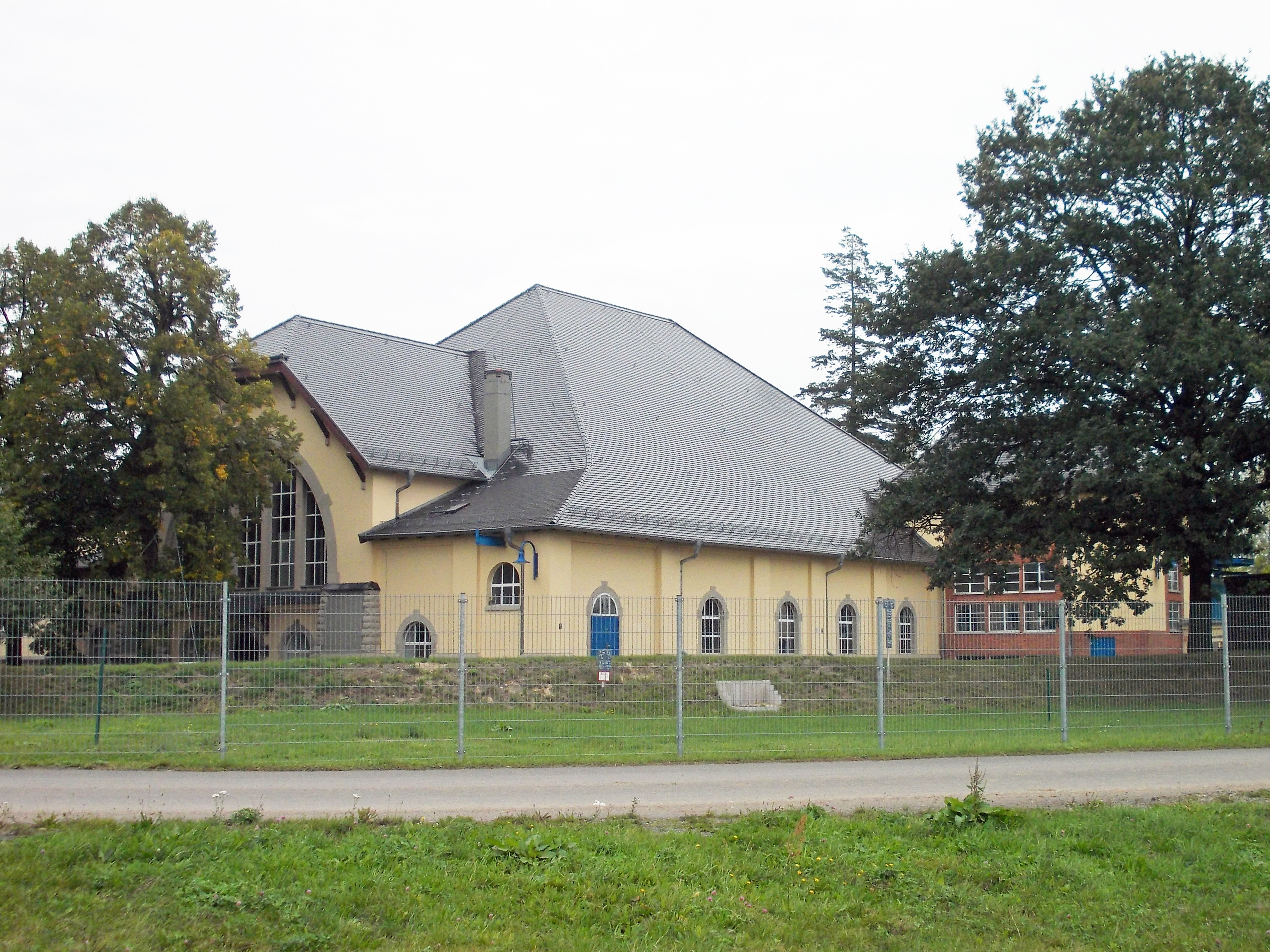 Waterworks at Canitz (Thallwitz, Leipzig district, Saxony)